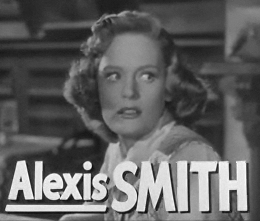 Cropped screenshot of Alexis Smith from the trailer for the film Whiplash